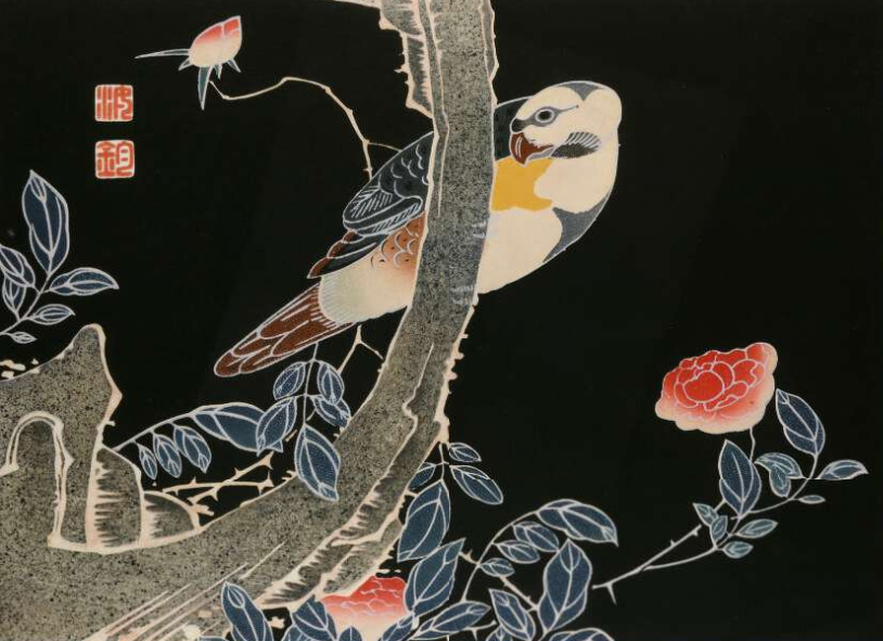 "Roses and Parrot", from the set of six Flowers and Birds prints made with original painting by Itō Jakuchū (1716 – 1800). Reproduced in Meiji Period or after 1868.